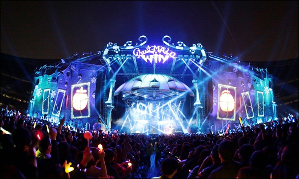 Seo Taiji Comeback Stage Christmalo.win on October 18, 2014